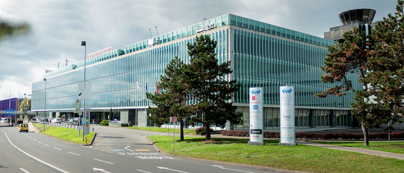 High-Tech Bridge offices at WTC World Trade Center Geneva